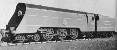 Southern Railway (UK) official works photograph of 21C1 Channel Packet taken on 18 February 1941. All copyright regarding official documents of the Southern Railway (UK) was passed on to British Railways (a former UK Government institution) upon nationalisation in 1948. Therefore, I submit the image in terms of fair use in the view that, to the best of my knowledge, the copyright has expired under the 50 year rule regarding British Government Archives. For further information, see: Burridge, Frank: Nameplates of the Big Four (Oxford Publishing Company: Oxford, 1975) ISBN 0902888439 --Bulleid Pacific 14:43, 1 September 2007 (UTC)